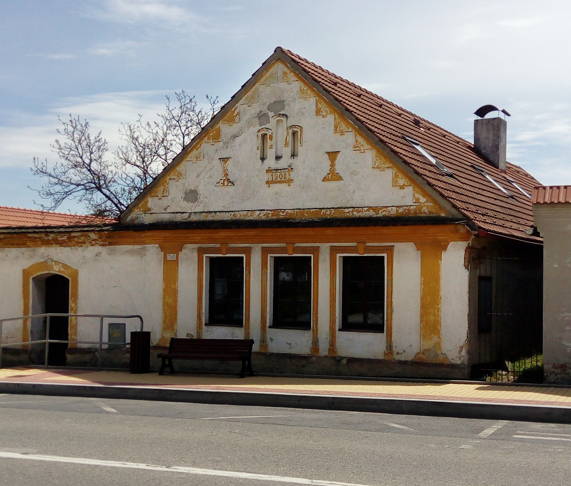 House No 4 in the village of Vitín, České Budějovice District, South Bohemian Region, Czech Republic.